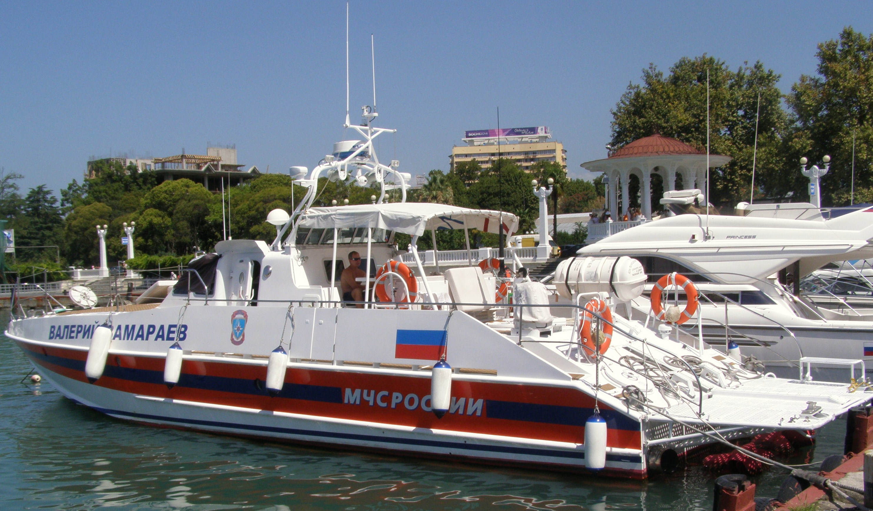 Russian "Mongoose" type speed-boat, project 12150M